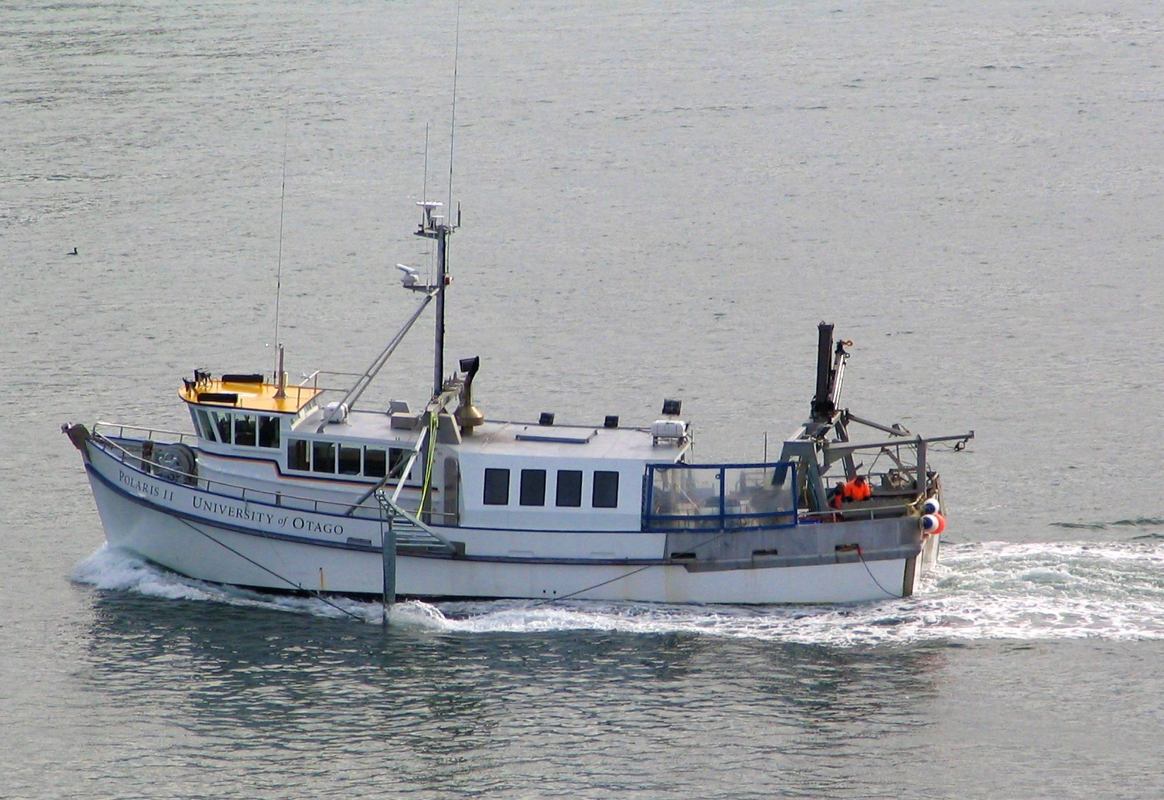 University of Otago research vessel Polaris II, own photo from Harrington Point